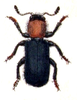 Dermestoides sanguinicollis, from Calwer's Käferbuch, Table 28, Picture 14. Taxonomy was updated to 2008, using mostly the sites Fauna Europaea and BioLib. Please contact Sarefo if the determination is wrong!